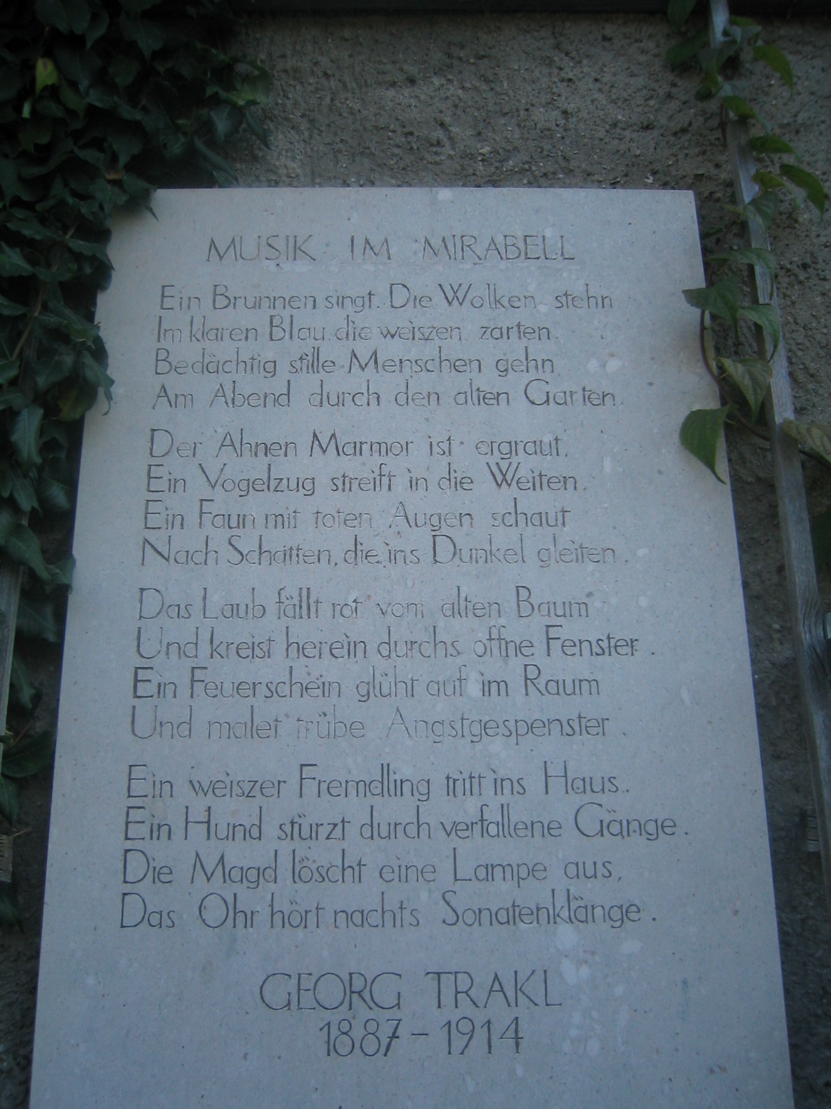 Austria, Salzburg, Mirabell Palace